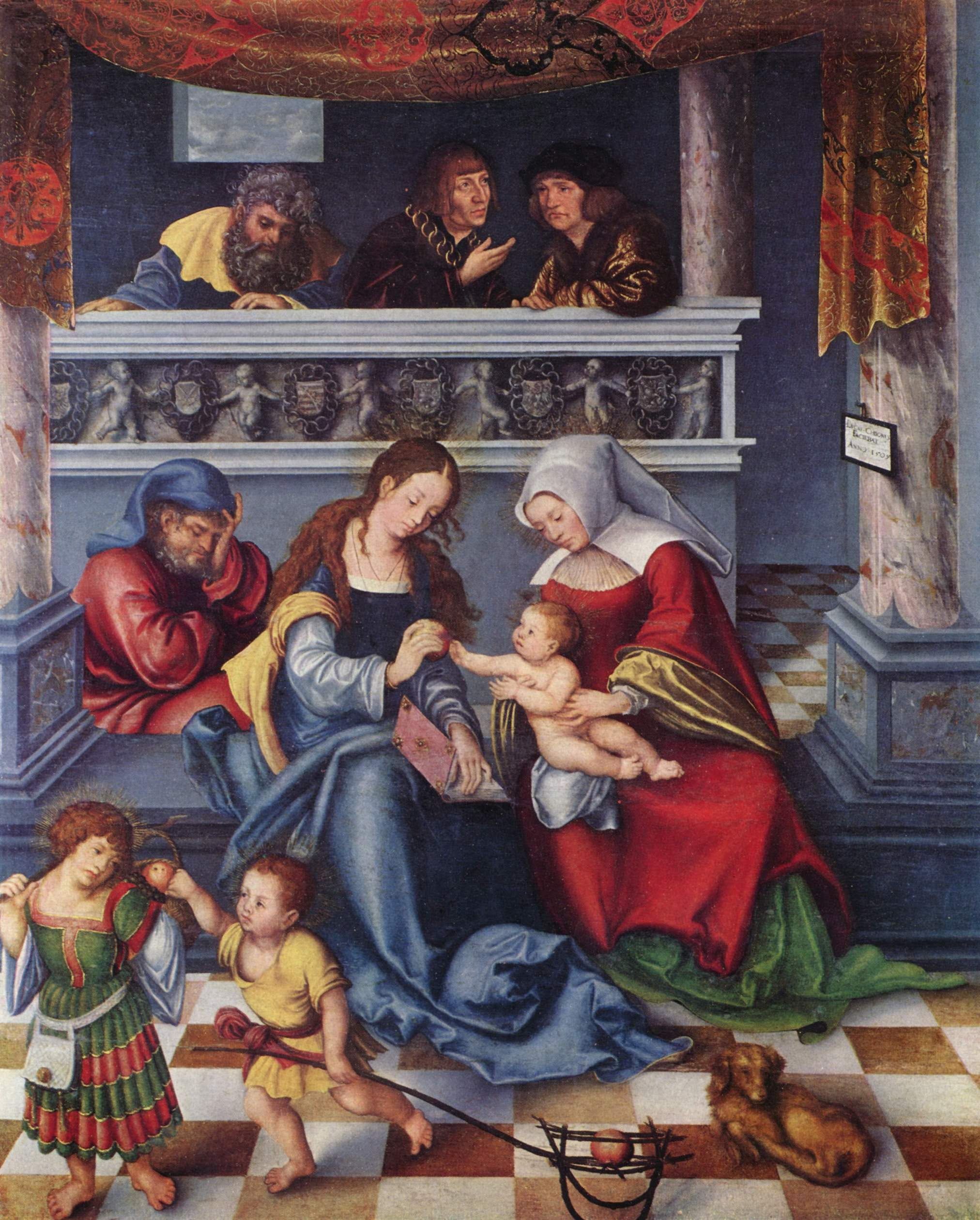 The side and central panels describe a a great hall with blue grey walls and three-colored tiles. central panel: depicts Joseph, who seems to seems to sleep, the Virgin, dressed in blue with yellow lining, Anna and the Christ Child on her knee, who is stretching out his hand towards an apple given to him by Virgin Mary. Anna's three husbands following the Golden Legend are shown in the background in the matroneum: on the left Joachim, who is attracted by the holy women in front of him and whose relation is also shown by the corresponding blue and yellow color of his dress, Cleophas (with the physiognomy and chain of Emperor Maximilian I and Salomas (eventually with the physiognomy of Sixtus Oelhafen von Schöllenbach, secretary of Friedrich III., Maximilian I. and Karl V. Charles V. ., who are talking to each other. There is an architectural structure by a great stone bench in the foreground of the central panel with two marble columns on the sides, over which is strectched a cloth of gold. On the right column is a tablet with date and signature. The parapet of the matroneum is decorated by a sculptured frieze with dancing putti holding six escutcheons with the six fields of Electorate of Saxony. In the hall are shown the 17 members of the Holy Kinship. In the central panel are shown two more children of Mary Cleophas and Alpheus, the Apostles Simon, patron saint of weavers, dyers, tanners and saddlers and Jude, who miss ionized and suffered their martyrdom together and therefore are regularly depicted together. right panel: St Mary Salome and Zebedee (with the features of Fredericks III, Elector of Saxony brother, Herzog Johann der Beständige. St Mary Salome, dressed in gold with dark red lining is combing her son Saint James the Greater and while Saint John the Evangelist is hiding in her dress. left outer wing: Madonna with Child, right outer wing: Saint Anne